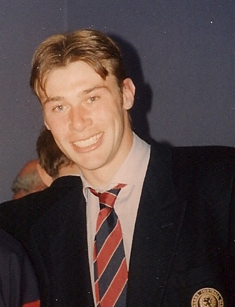 Depicted person: Duncan Ferguson – Scottish footballer